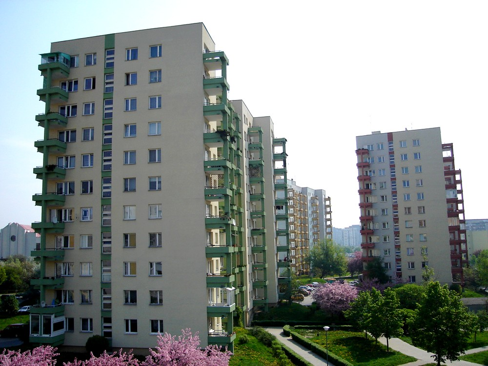 Goclaw - Praga South - Warsaw